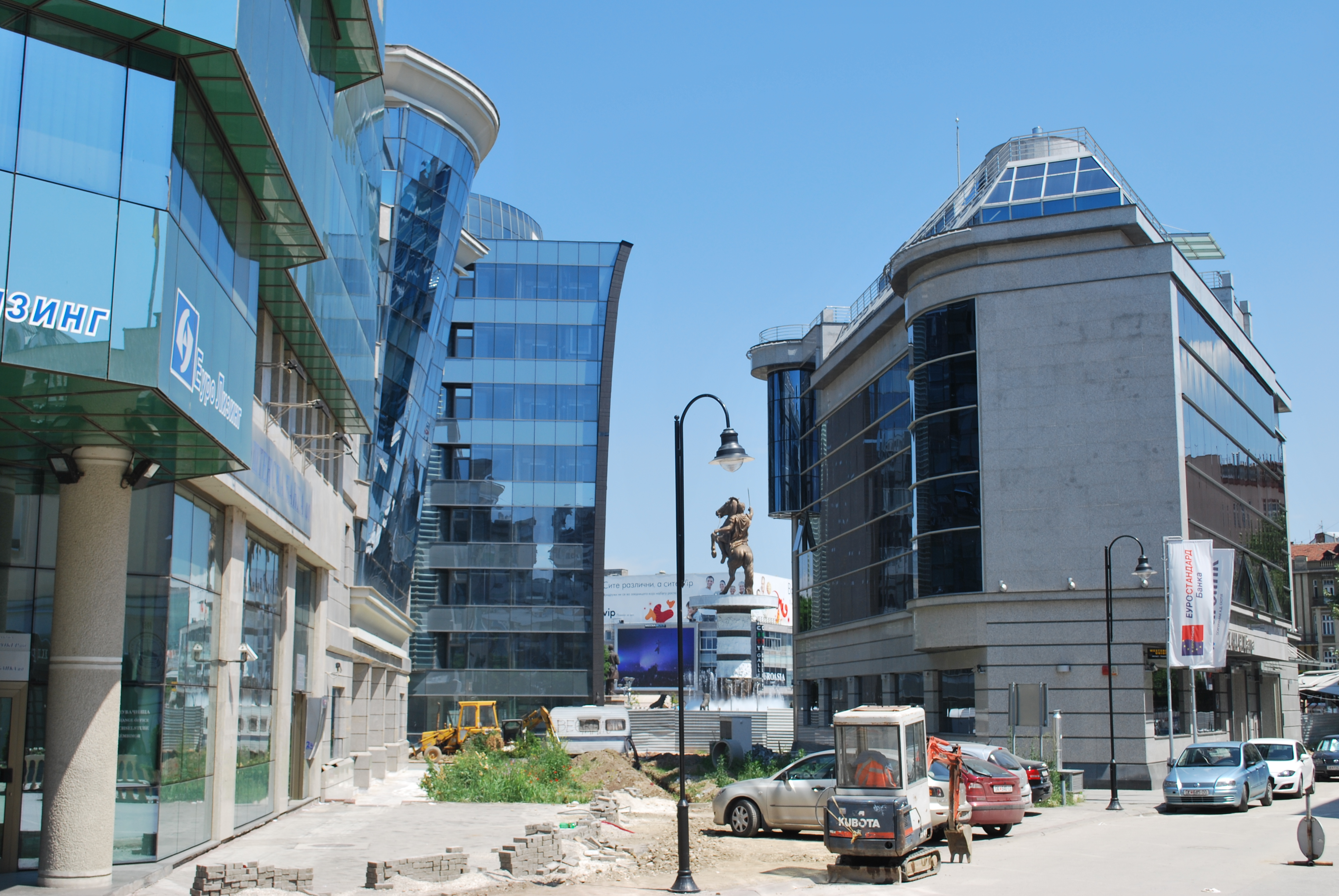 Skopje, Macedonia